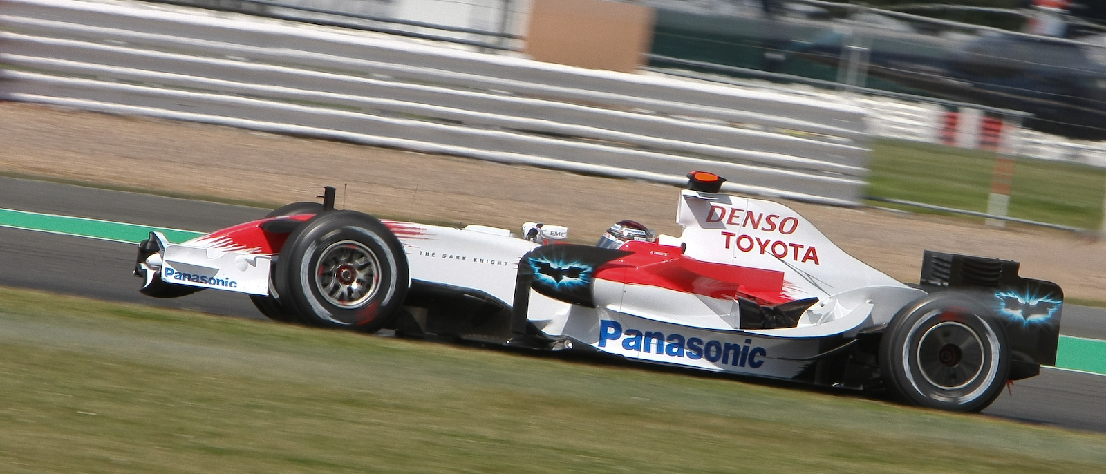 Jarno Trulli driving for Toyota F1 at the 2008 British Grand Prix.